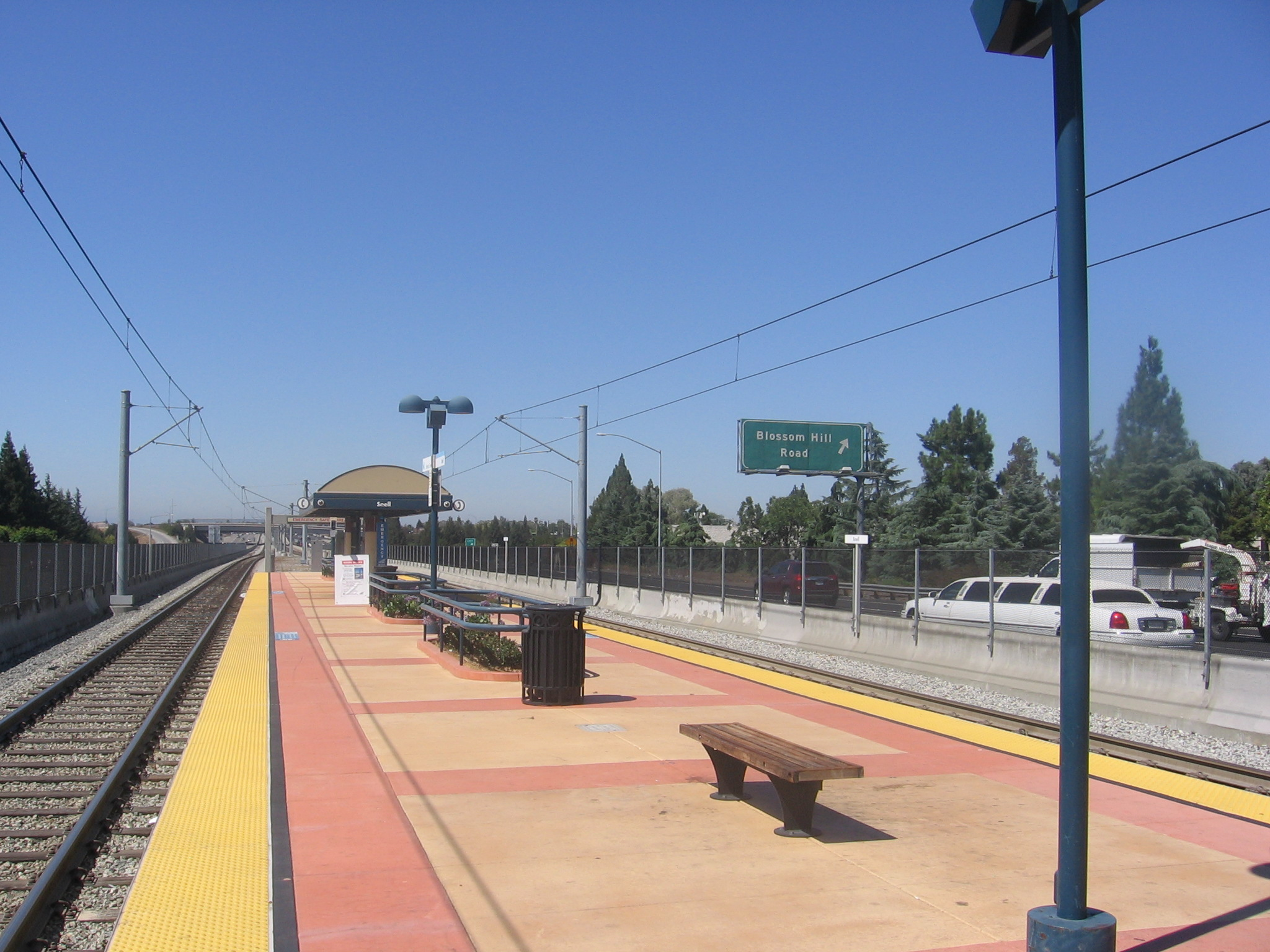 The Snell (VTA) light rail station in San José, California, USA.